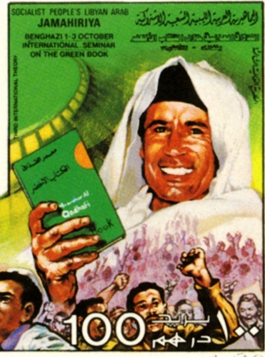 Libya 1979 Int Seminar of the Green Book (Col Gaddafi)